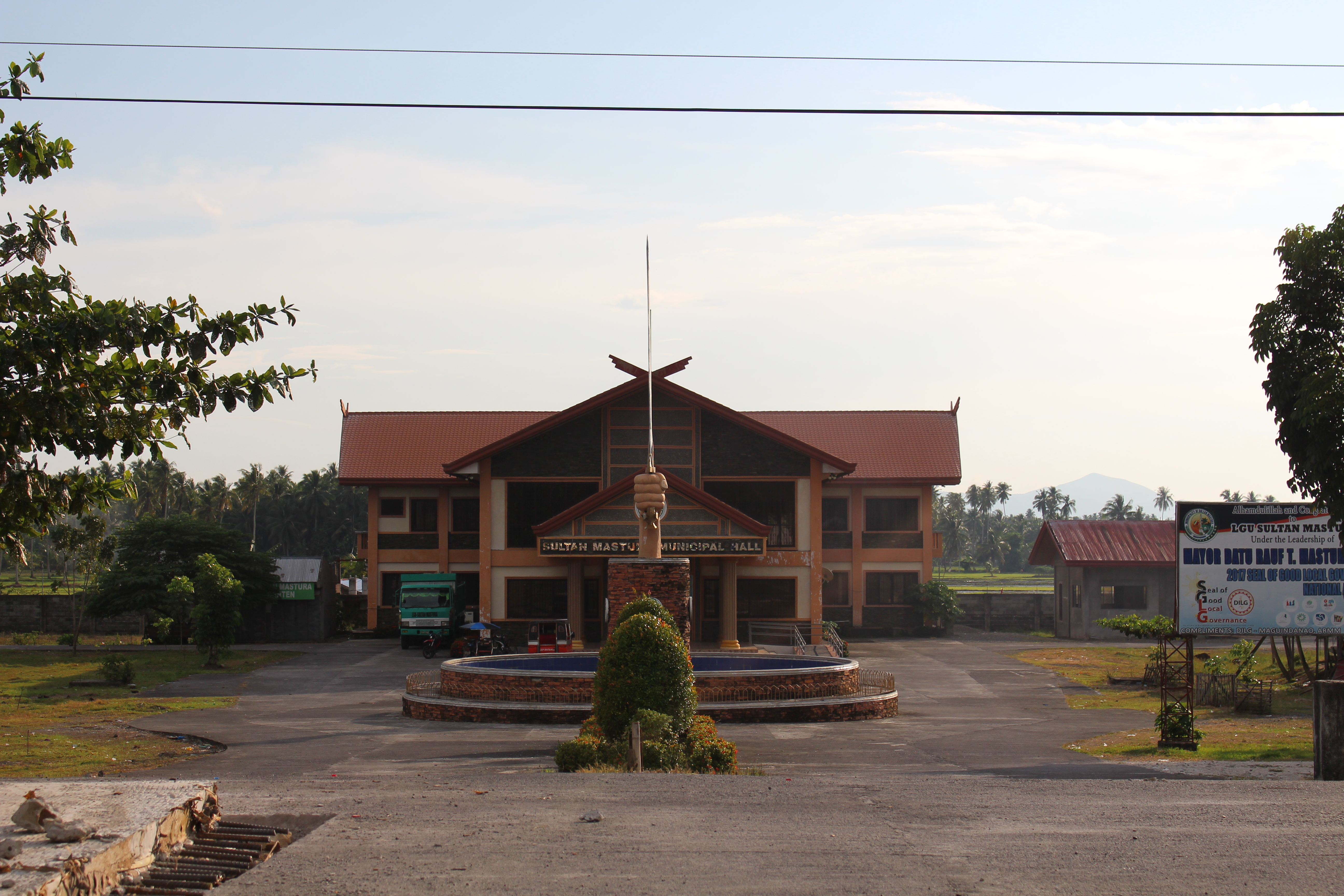 Sultan Mastura Municipal Hall at Maharlika Highway, Maguindanao.